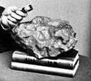 Trenton meteorite